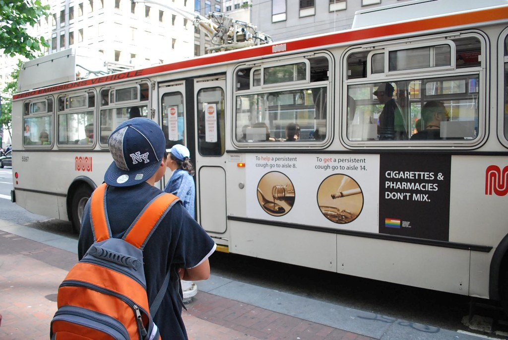 This photo depicts a tobacco-free pharmacy public service campaign called "Cigarettes & Pharmacies Don't Mix" The campaign ran in San Francisco, June 2008.